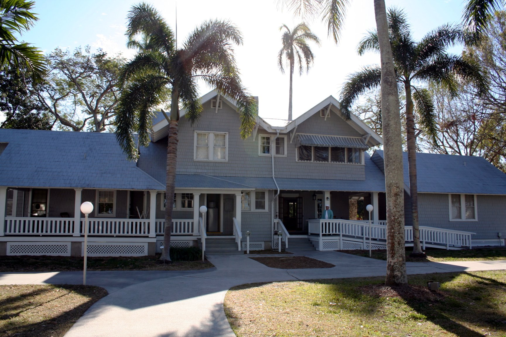 Photograph of the Ford winter home in Fort Myers, Florida, USA taken by Rolf Müller on January 26 2006 using a Canon Inc. EOS 350D digital camera with an EFS 18-55mm lens